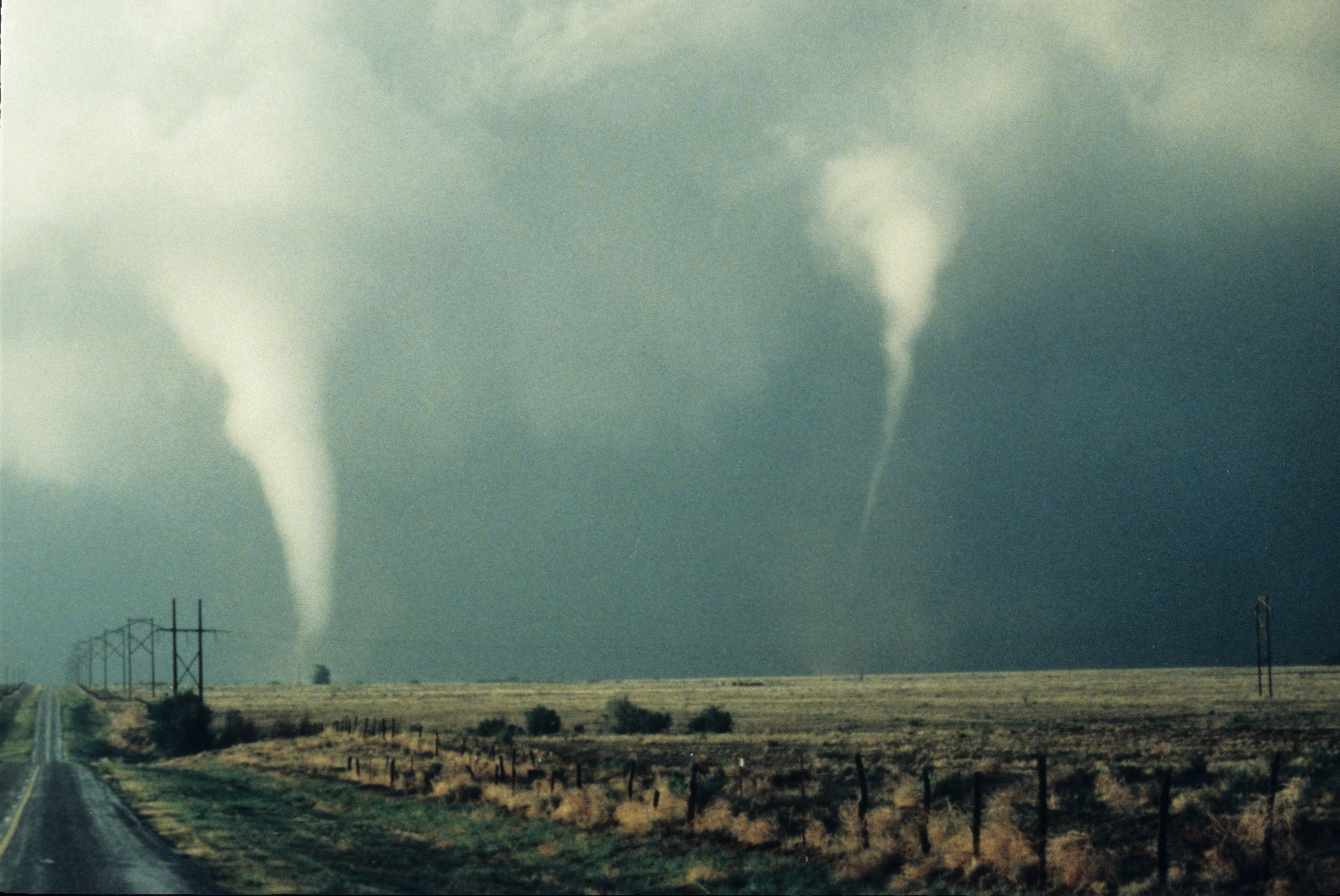 Twin tornadoes spawned from the same supercell, somewhere in the US Great Plains.